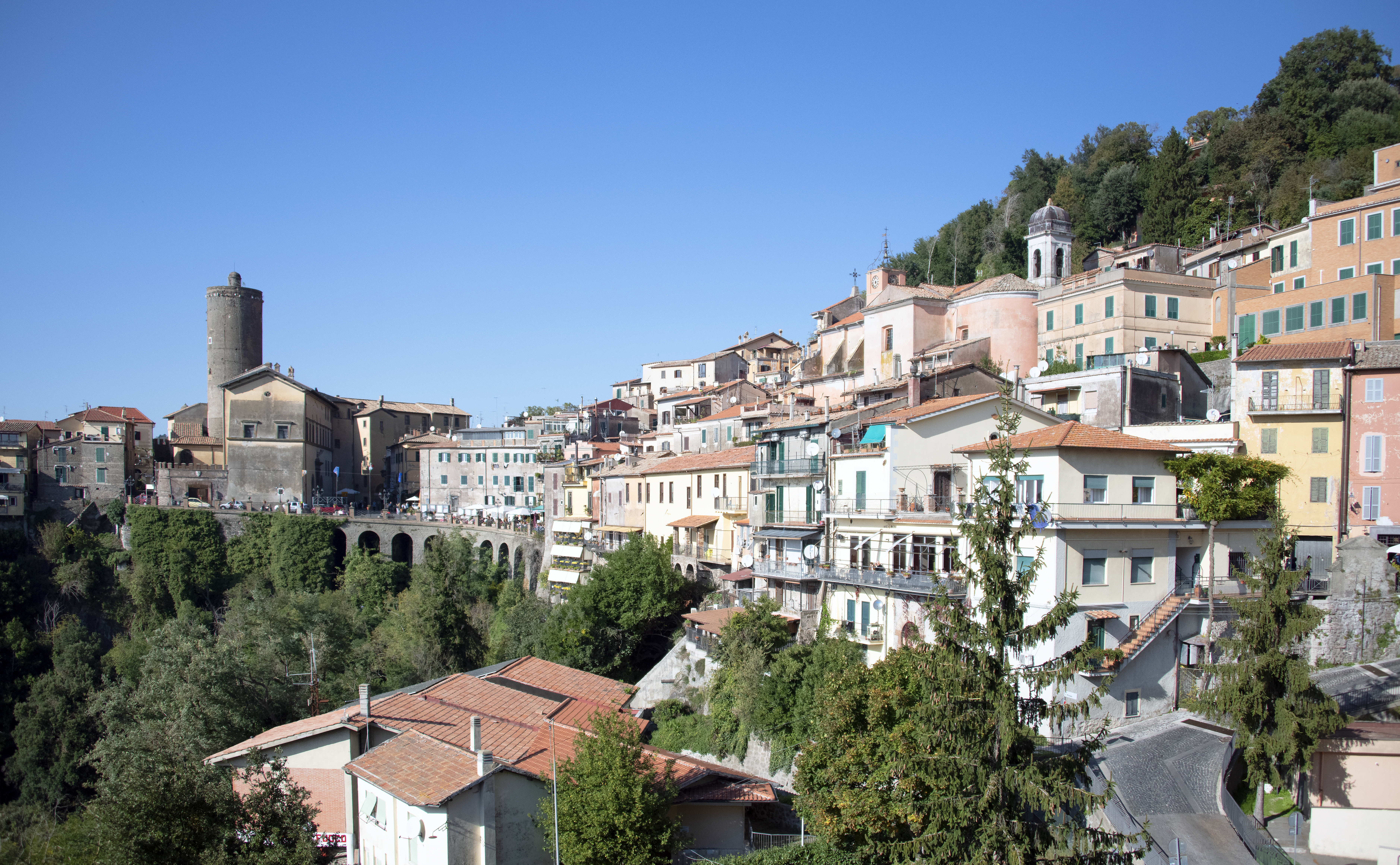 Nemi Panorama